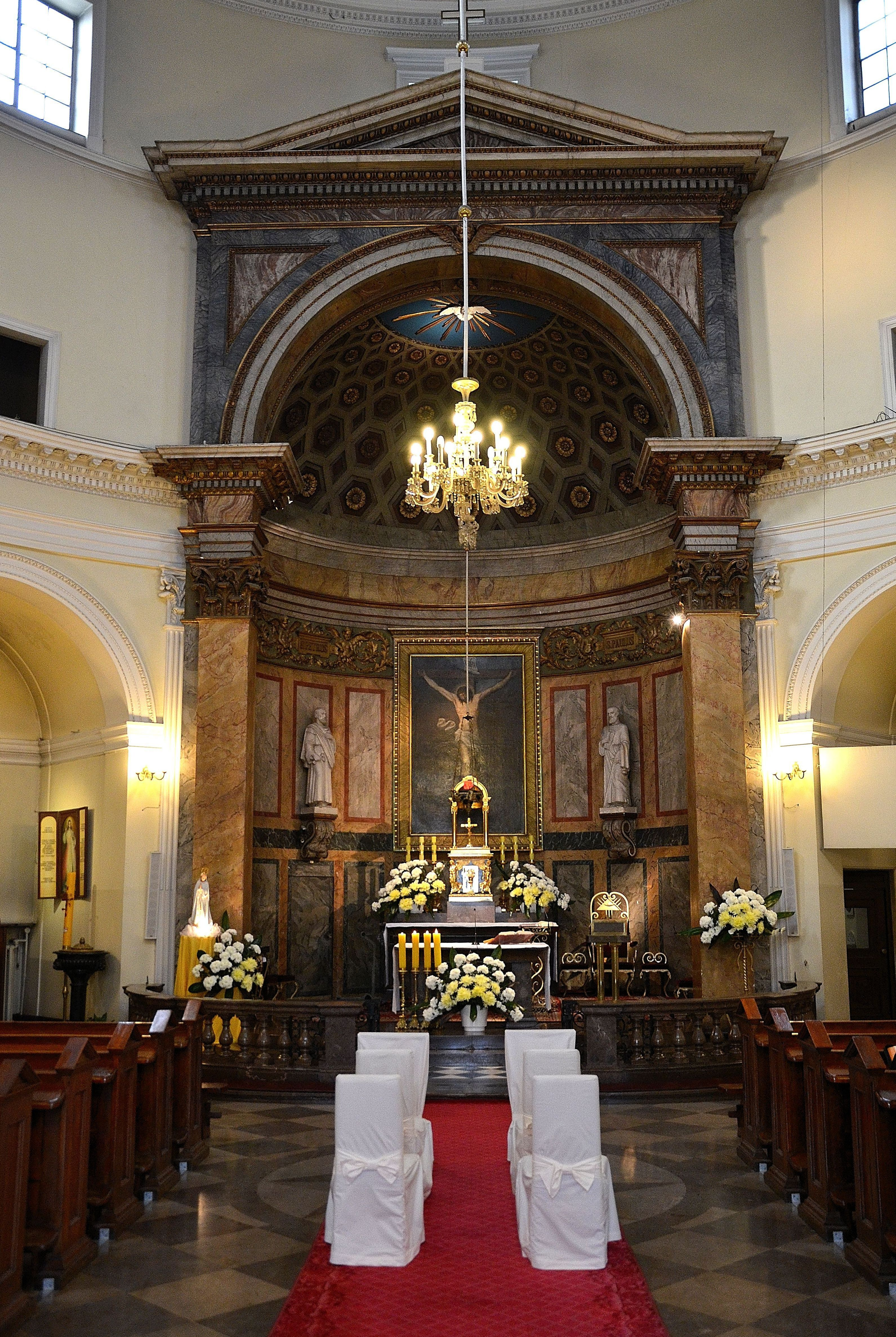 Interior of St. Alexander church in Warsaw